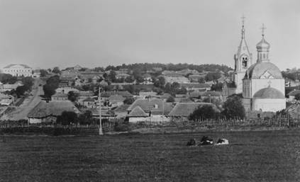 Kerensk. View from the monastery. To the right: Epiphany church.